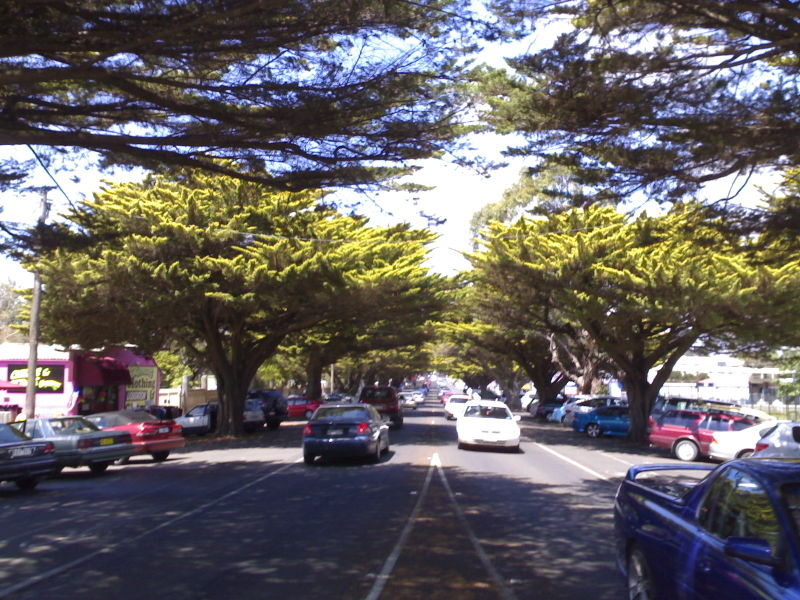 Street in Cowes, Victoria